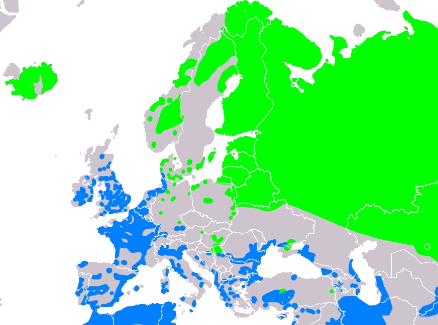 Distribution map of northern pintail (Anas acuta) according to IUCN version 2019-2 in Europa ; key: Legend: Extant, breeding (#00FF00), Extant, non-breeding (#007FFF)